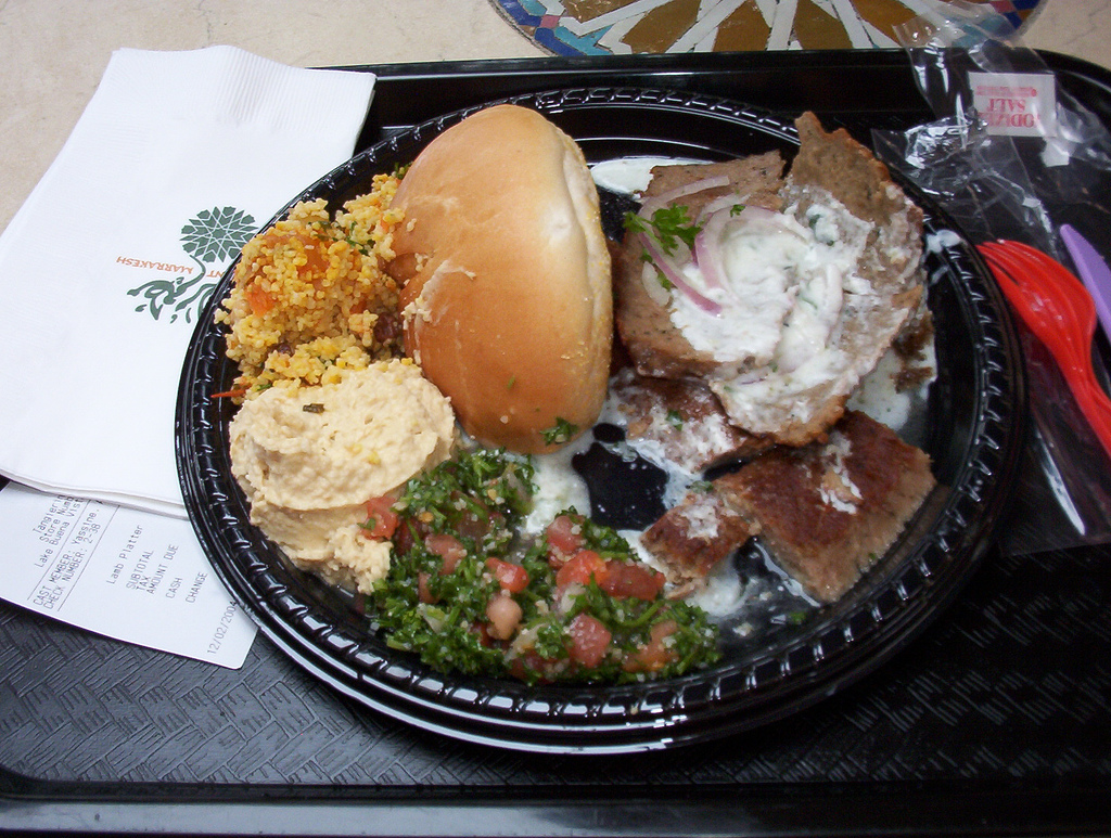 The fabulous Lamb Shawarma platter from Tangierine Cafe in 'Morocco' at Walt Disney World EPCOT. One of the best deals for Counter Service in EPCOT. A BIG meal at a great price! Not American Comfort food, but it fits the criteria with an International twist. Simple; filling; good. What more do you need?